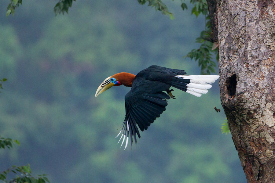 Mahananda W.L.S , WB,India